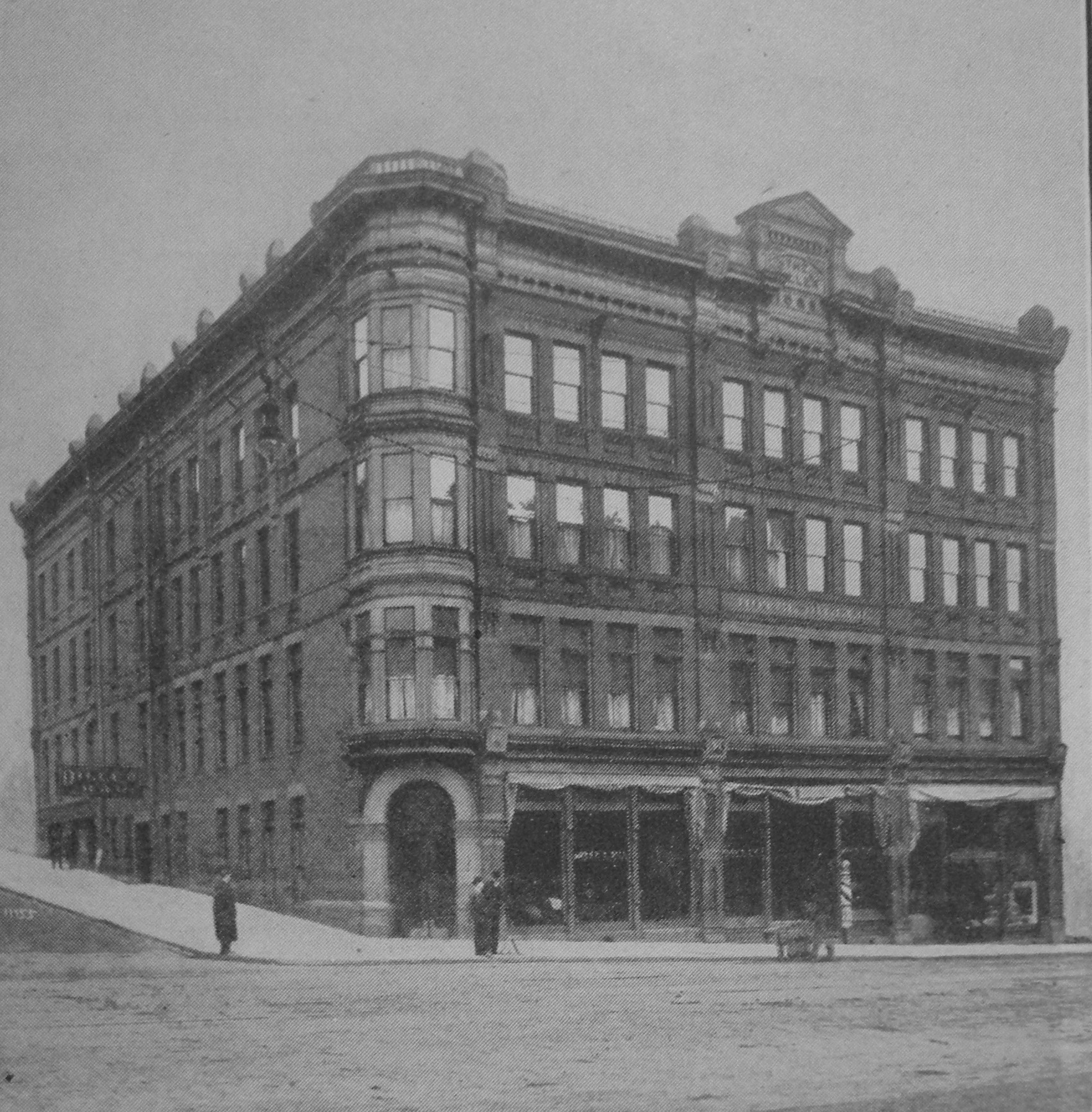 Hotel Diller, corner of First and University, Seattle, Washington, 1909. The building (now apartments) is still standing—and still owned by the Diller family—as of 2008.